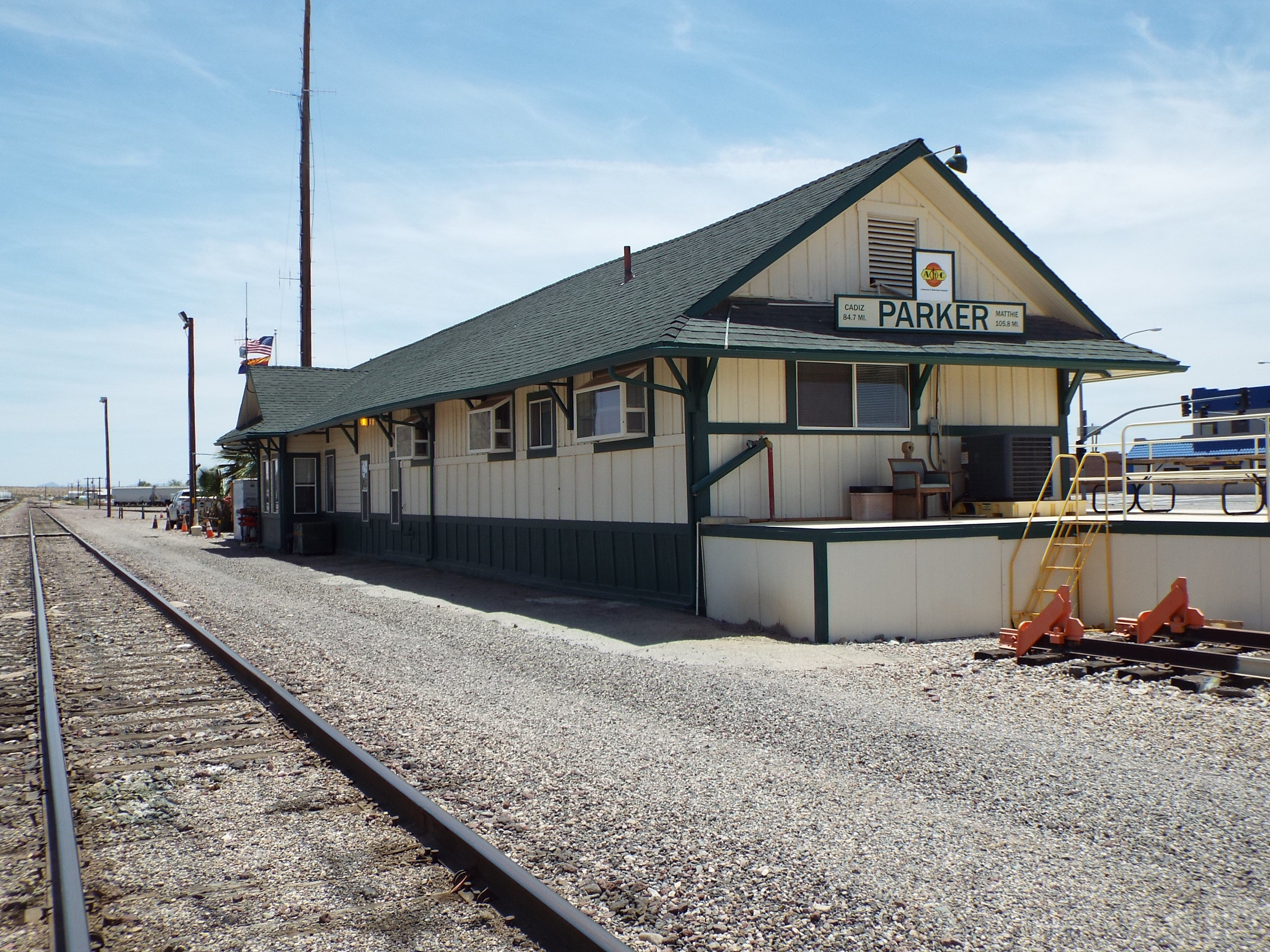 The Arizona and California Railroad Station built in 1908. Parker, Arizona.